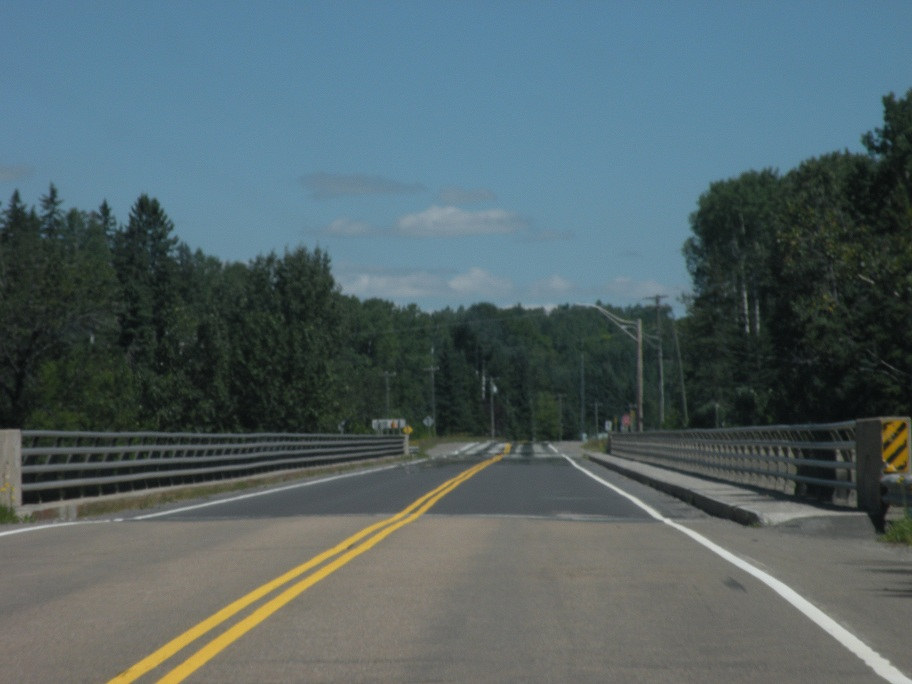 The bridge in Robinsonville, New Brunswick.